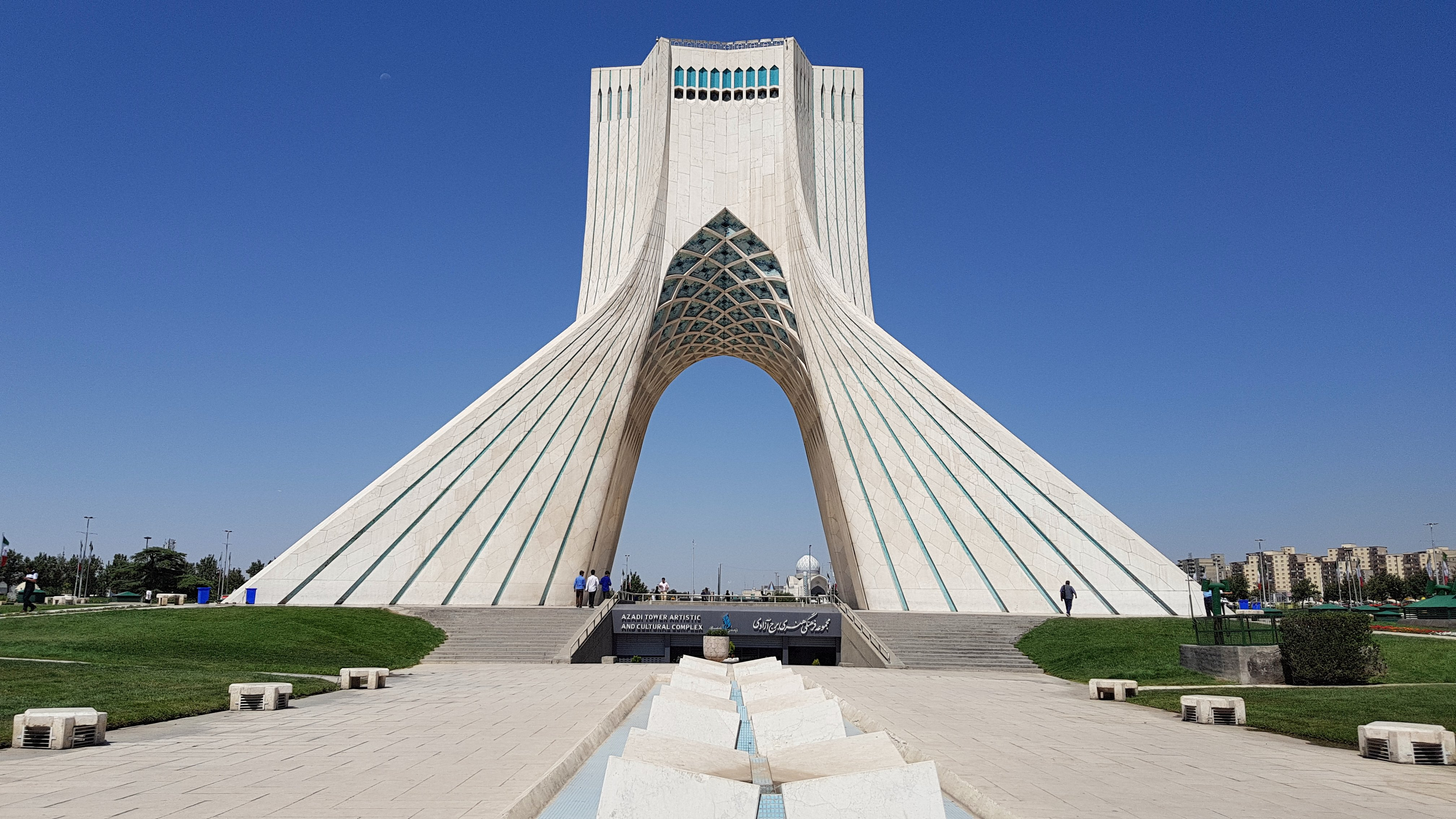 The Azadi Tower (Persian: برج آزادی, Borj-e Āzādi; "Freedom Tower"), formerly known as the Shahyad Tower (برج شهیاد, Borj-e Ŝahyād; "Shah's Memorial Tower"), is a monument located at Azadi Square, in Tehran, Iran. It is one of the landmarks of Tehran, marking the west entrance to the city, and is part of the Azadi Cultural Complex, which also includes a museum underground. Text source: Wikipedia CC BY-SA